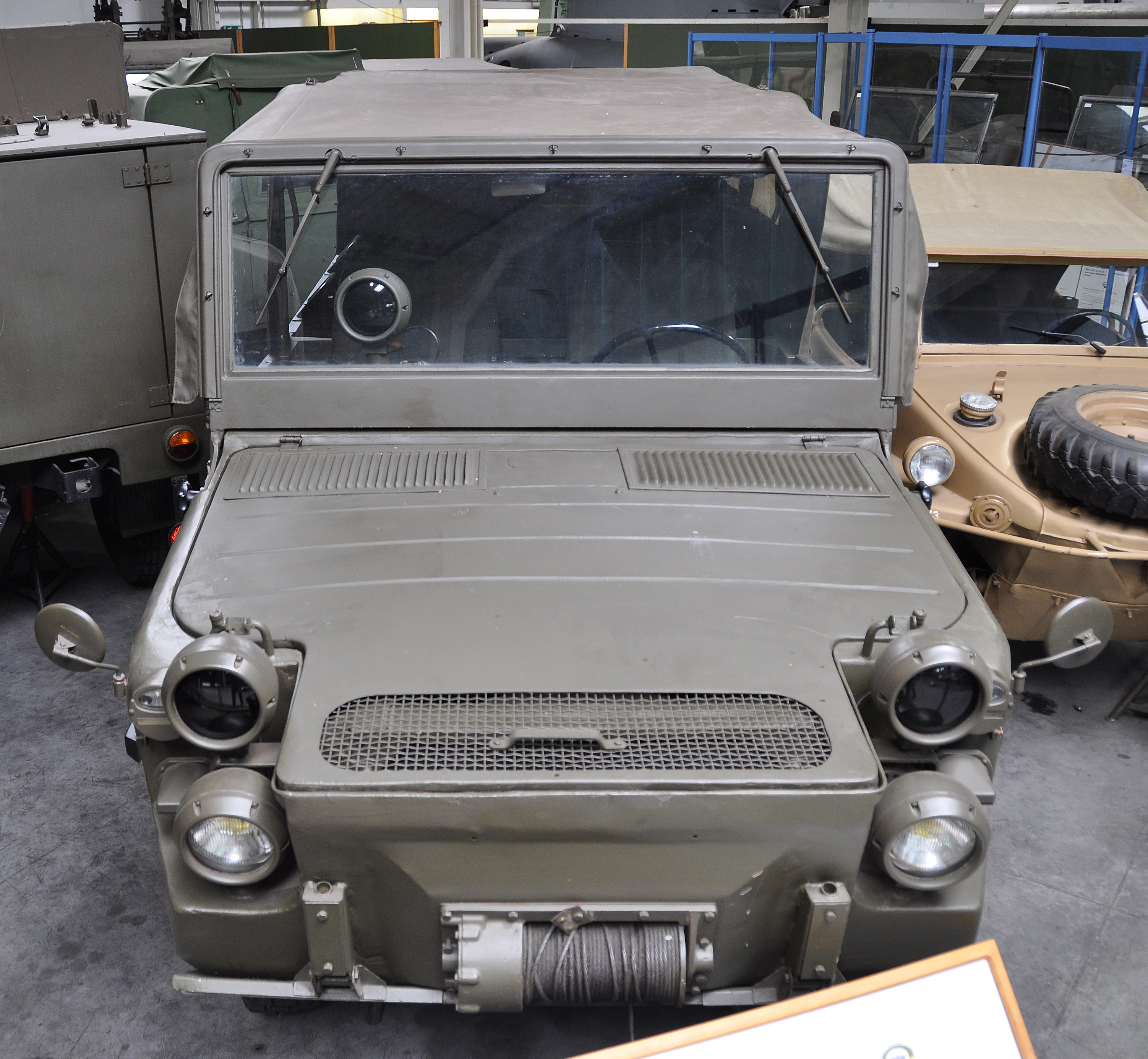 Front of Europa-Jeep Hotchkiss-Bussing-Lancia